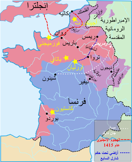 Map of France during the Hundred Years War, around the time of the Treaty of Troyes.